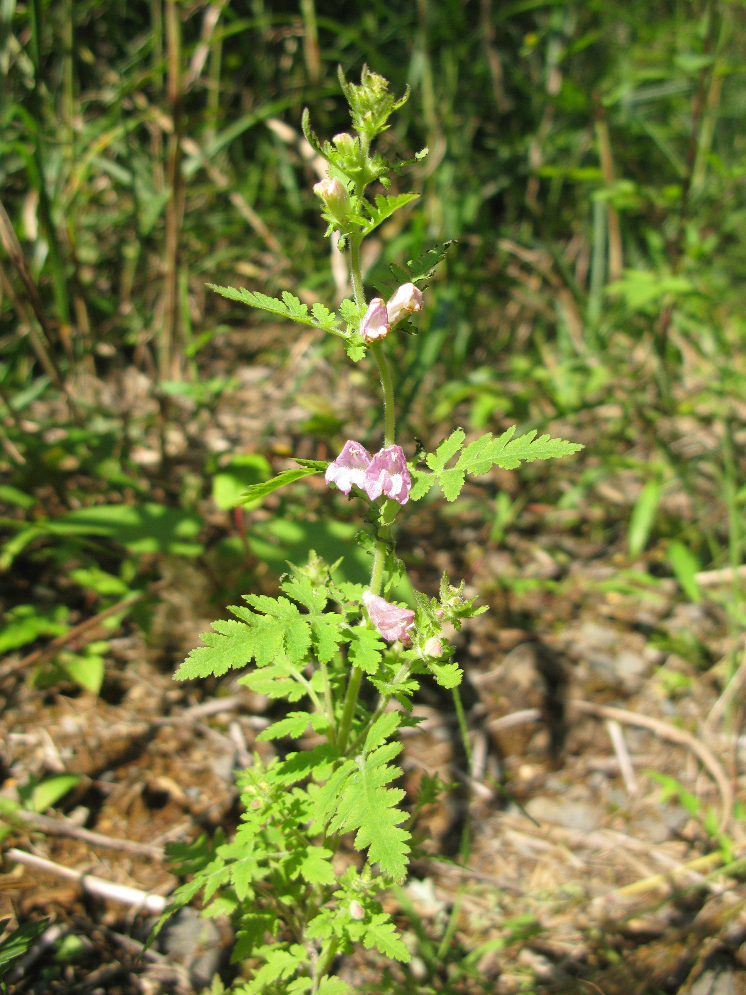 Phtheirospermum japonicum, Fukushima pref., Japan